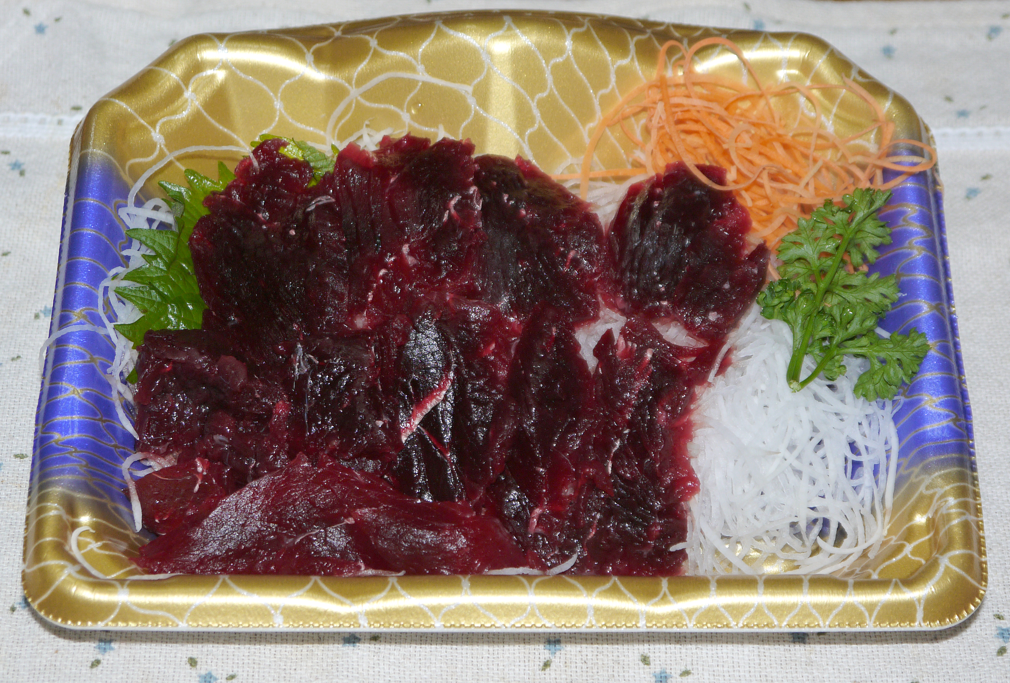 Japanese sashimi of whale meat